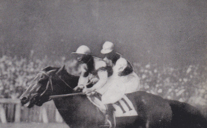 Tokyo Yushun(Japanese derby) 1947